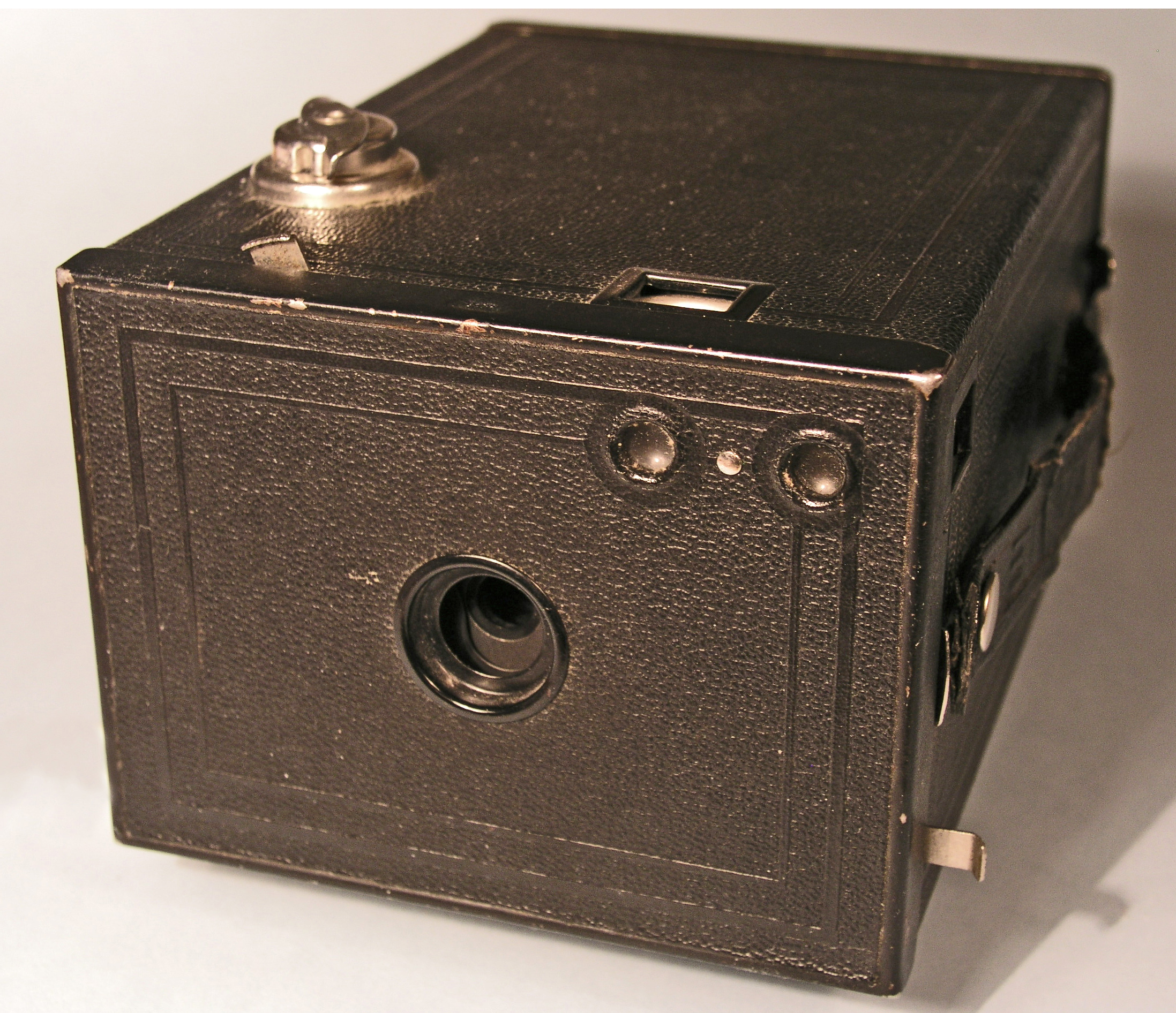 Kodak Brownie camera